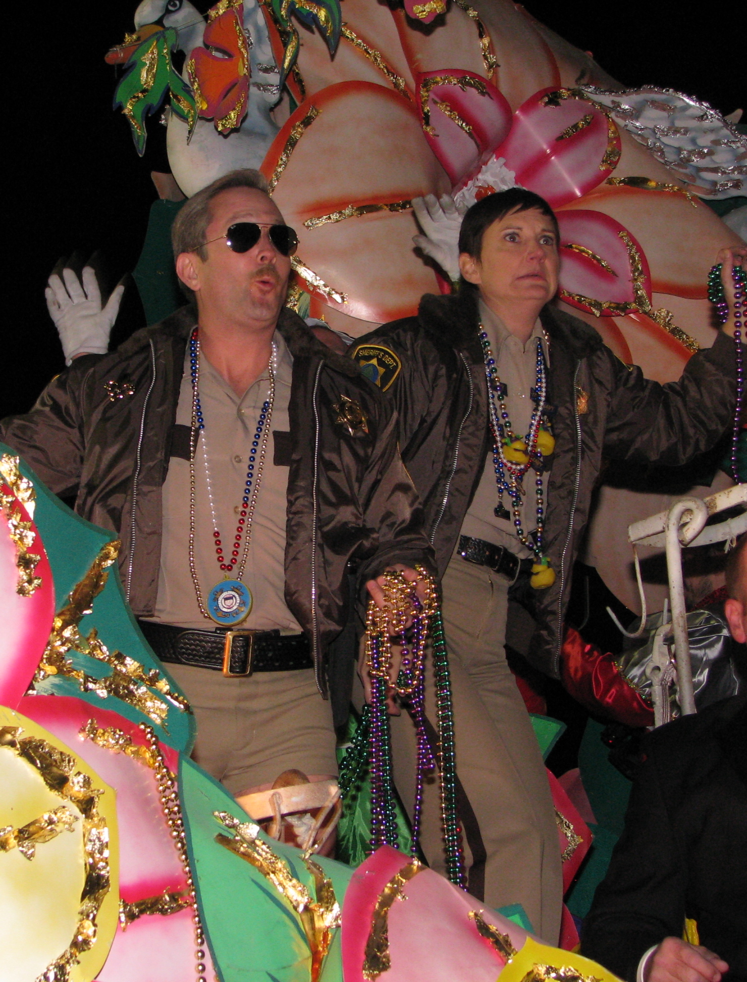 Cast members of television comedy "Reno 911" on float of Orpheus parade, New Orleans Mardi Gras